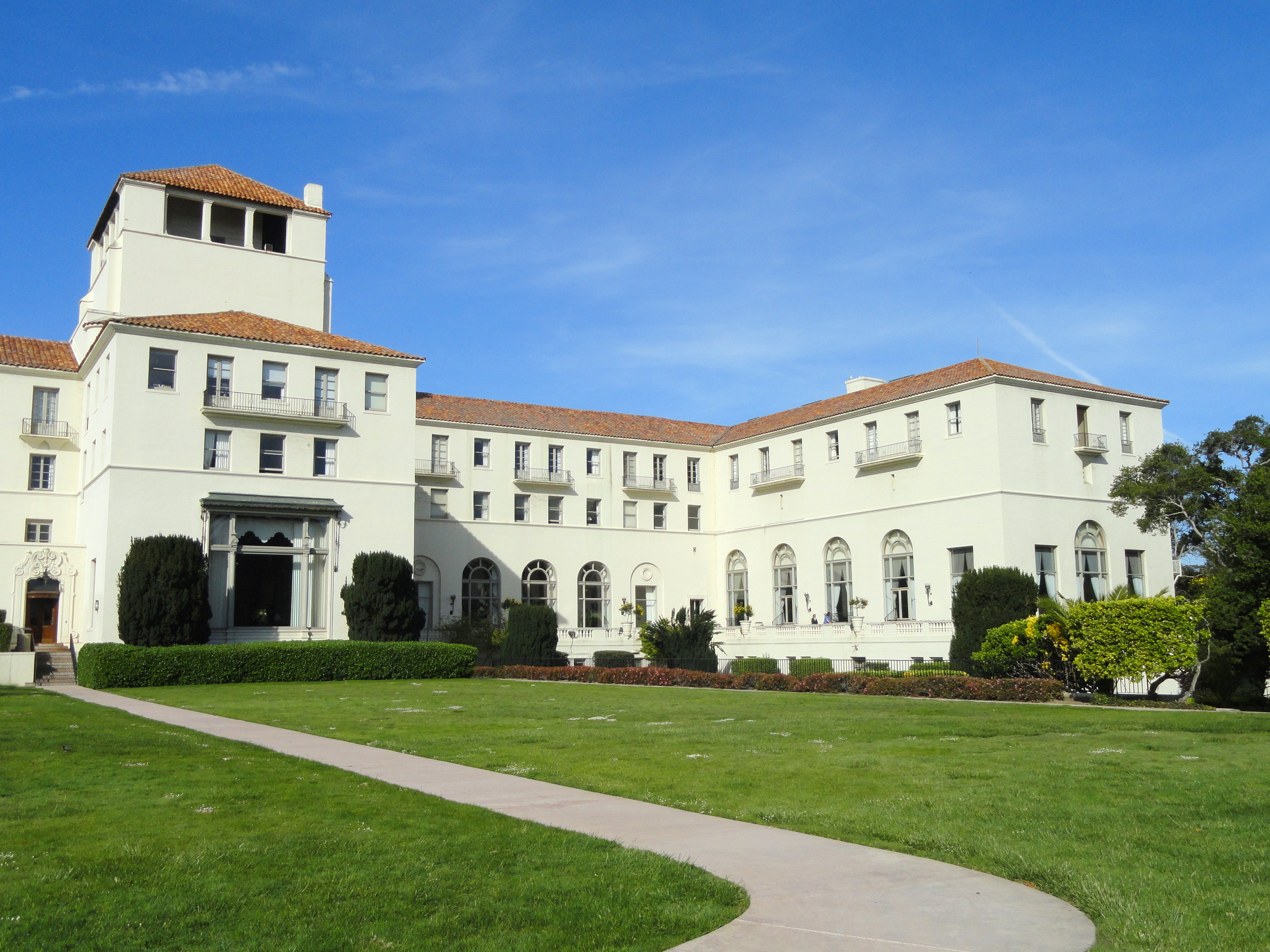 Herrmann Hall, Naval Postgraduate School, Monterey, California, USA.